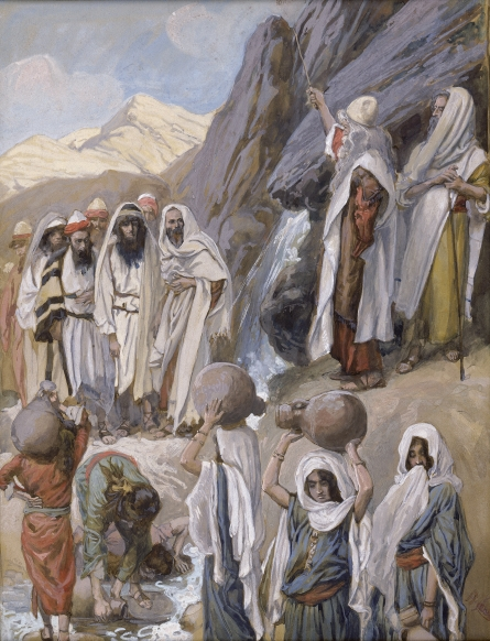 Moses Strikes the Rock, c. 1896-1902, by James Jacques Joseph Tissot (French, 1836-1902), gouache on board, 11 5/16 x 8 9/16 in. (28.8 x 21.8 cm), at the Jewish Museum, New York